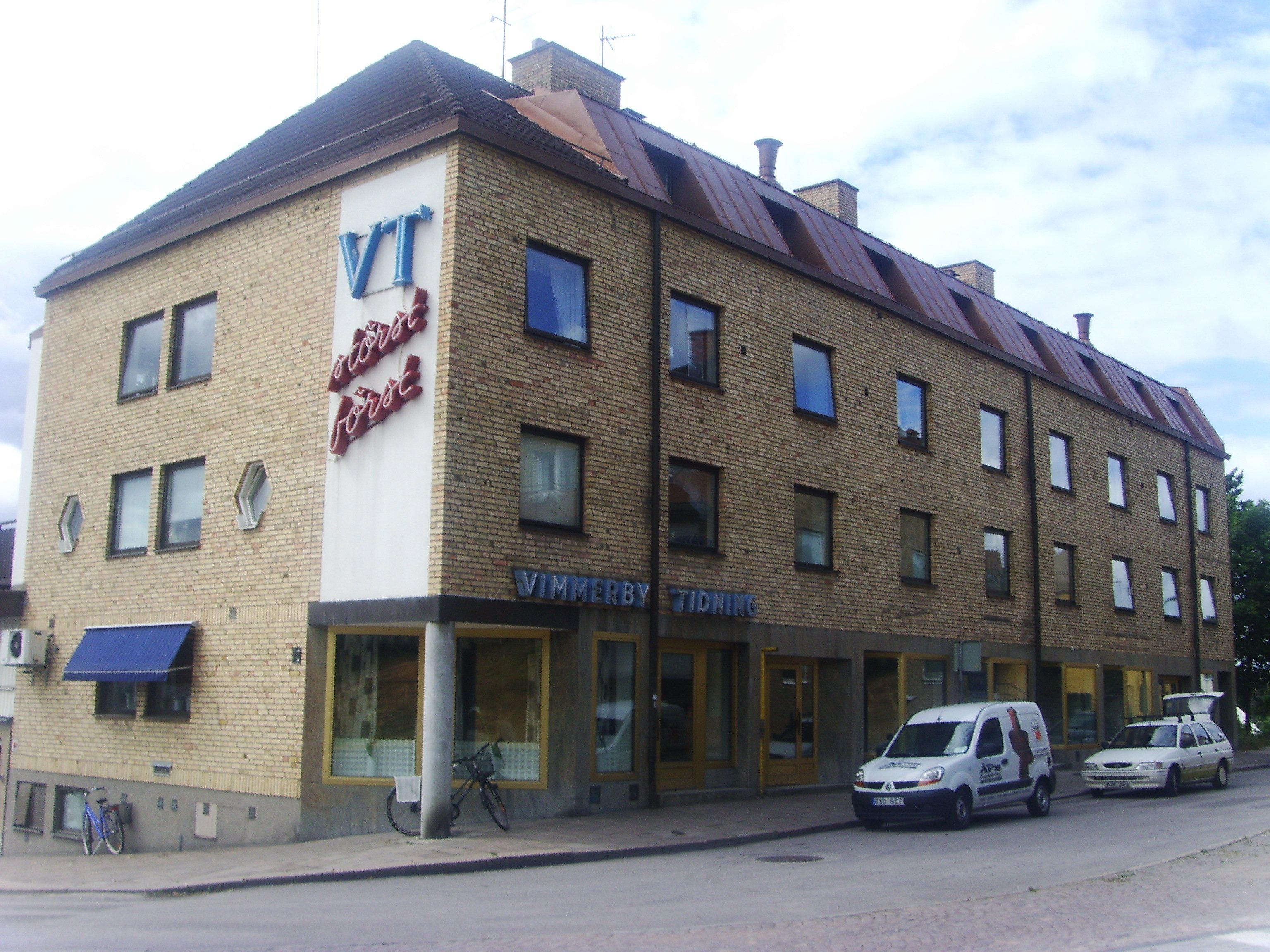 Vimmerby